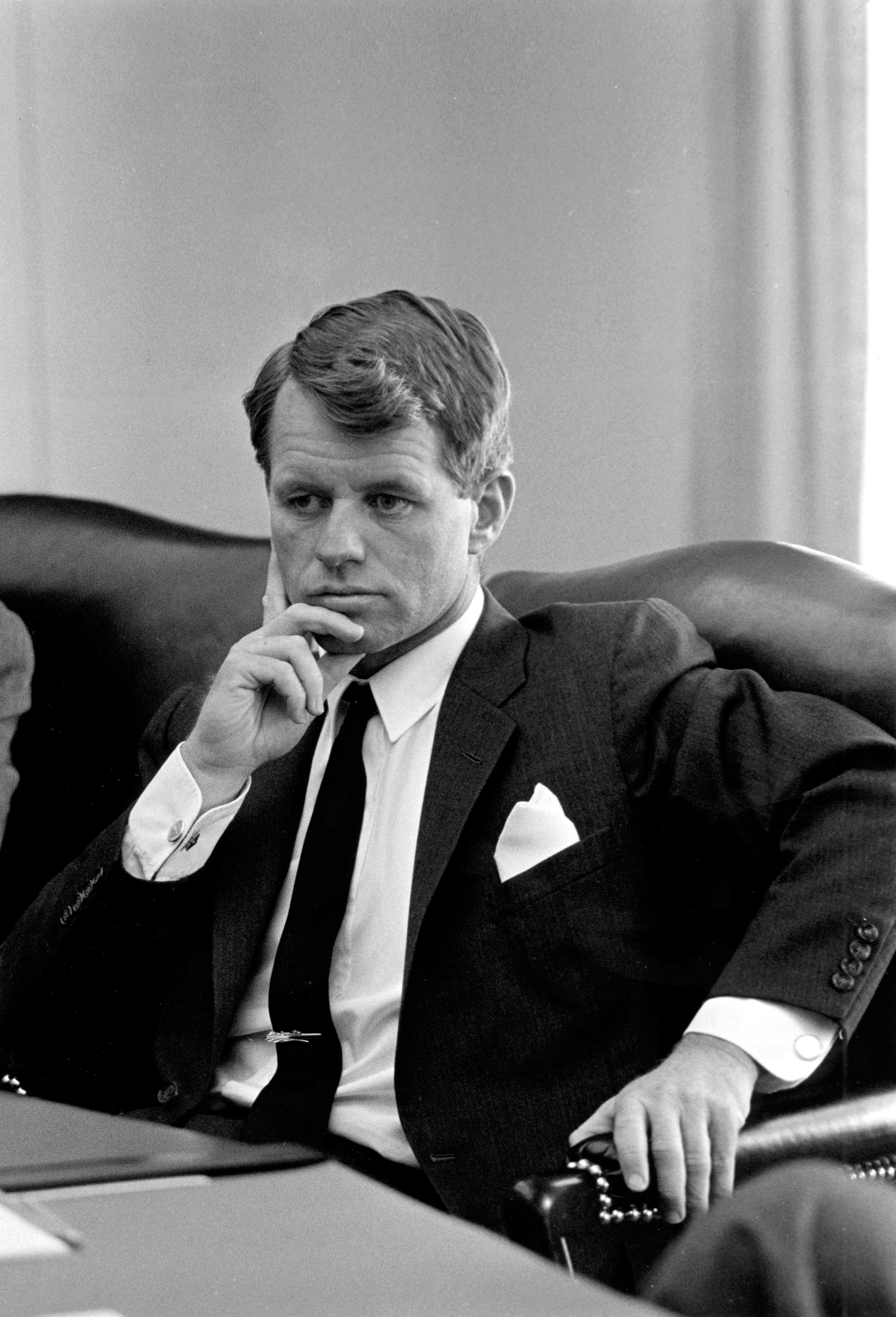 Robert F. Kennedy, Cabinet Room, White House, Washington, DC.